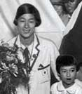 人見絹枝(Kinue Hitomi:Silver Medalist of Woman's 800m Athletics at the 1928 Amsterdam Olympic Games)